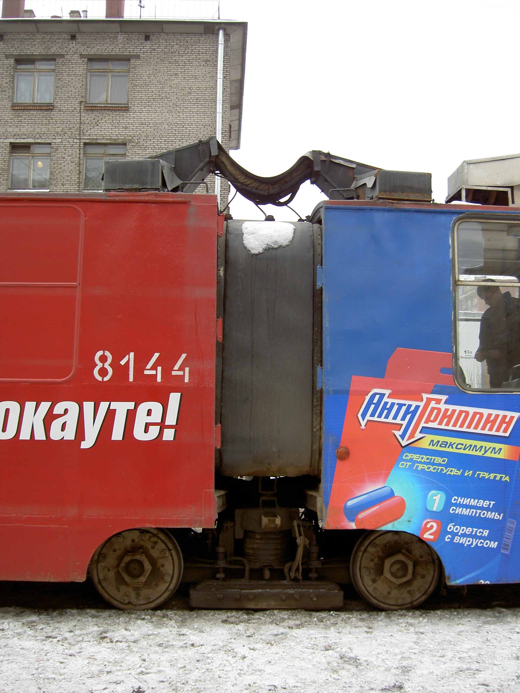 LVS-86 tram coupling